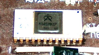 K145IK17 Russian pong style ICs